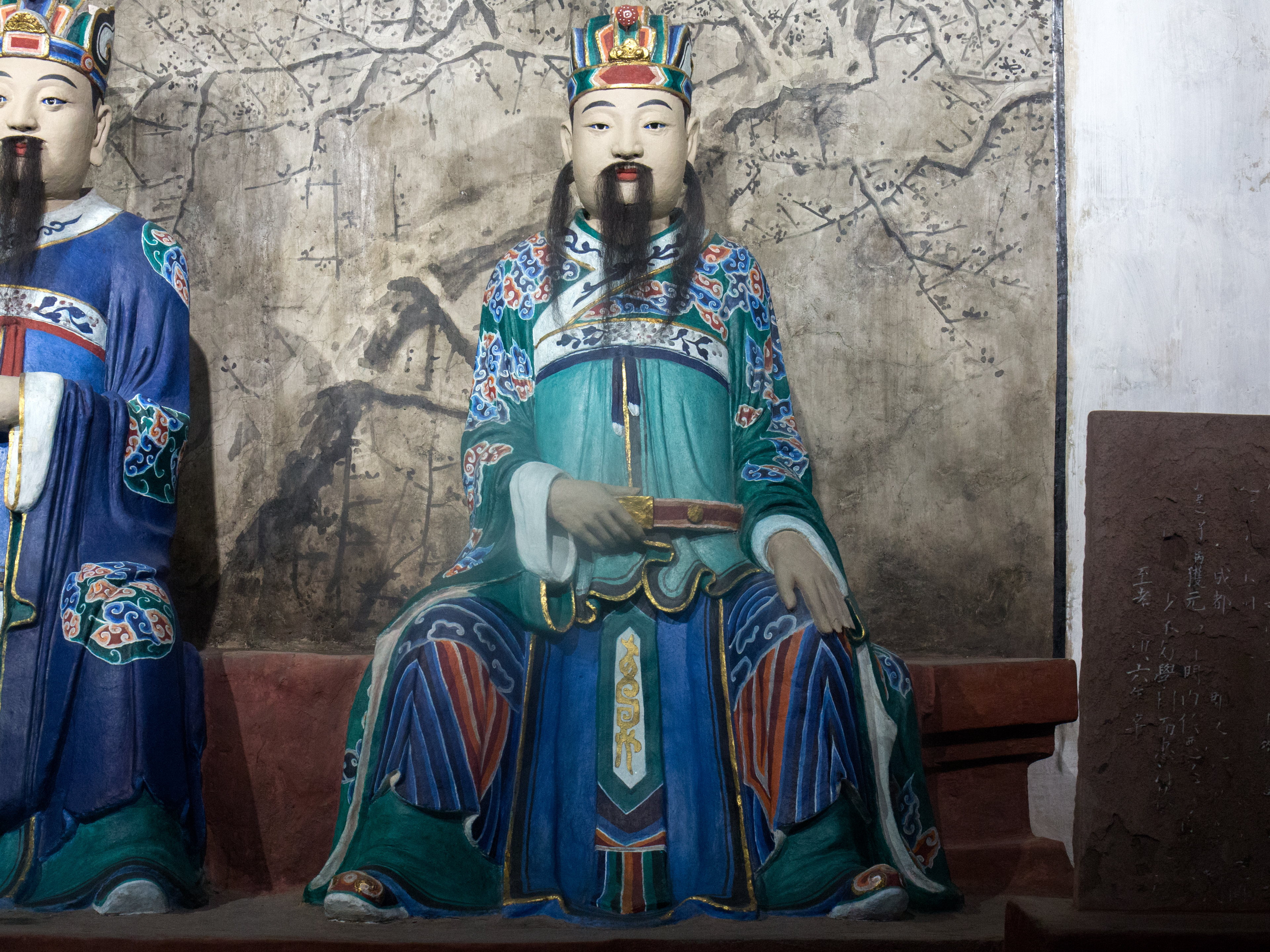 Yang Hong (楊洪)